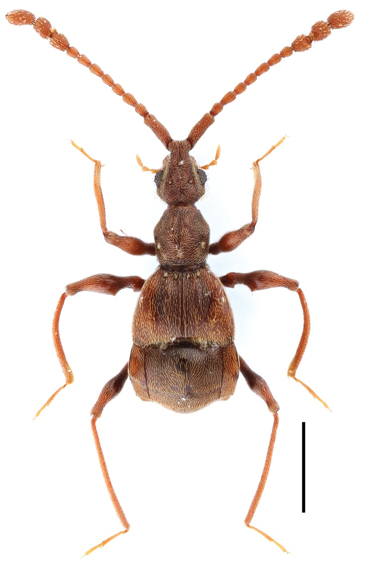 Male habitus of Labomimus sarculus. Scale: 1.0 mm.